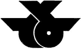 Toyoyama Aichi chapter